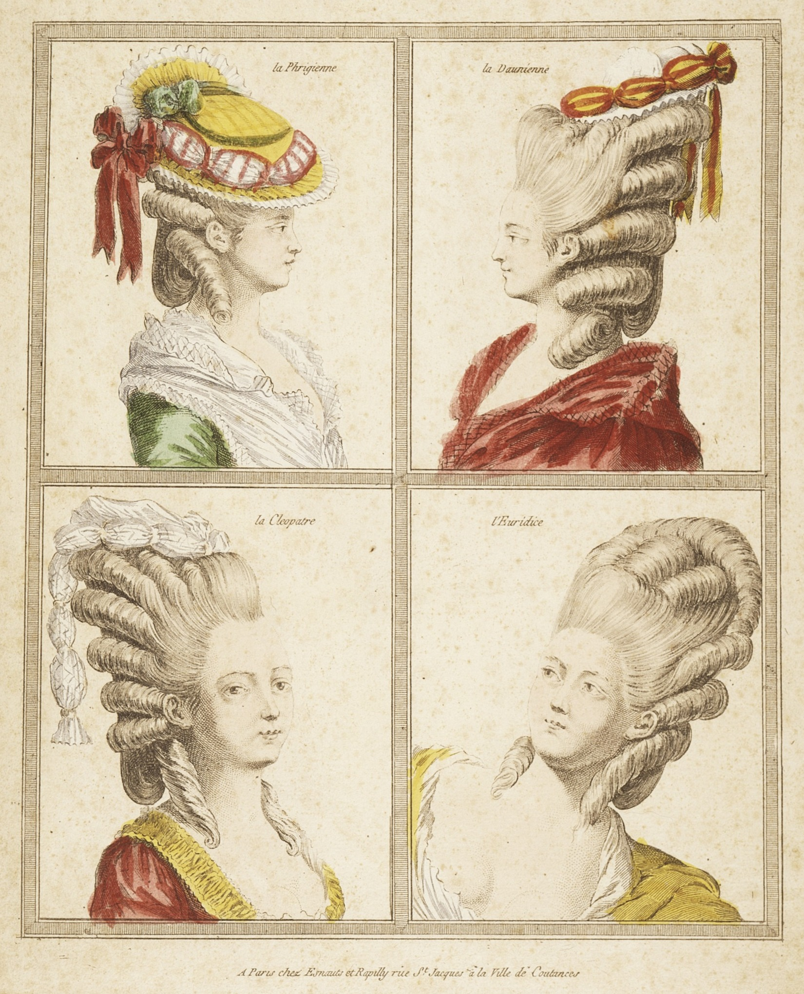 France, Rapilly, 18th century Prints; engravings Engraving, hand tinted, gouache Sheet: 11 5/8 x 9 3/8 in. . Comp: 9 6/8 x 7 7/8 in. Costume Council Fund (M.83.194.6) Costume and Textiles